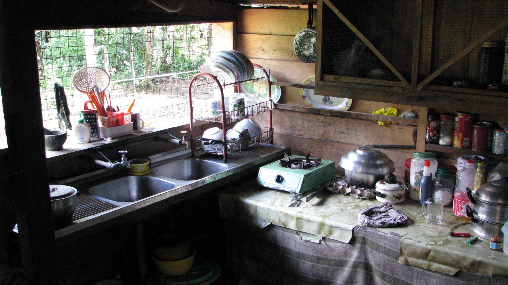 Kitchen in a typical house in Long Kerong